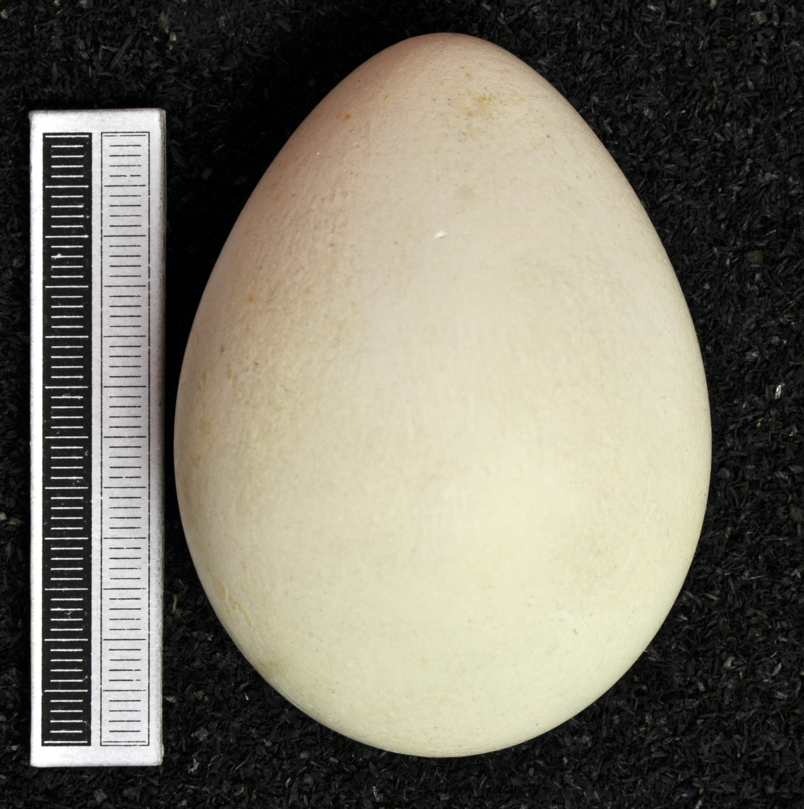 African penguin Spheniscus demersus , egg, Coll. Museum Wiesbaden